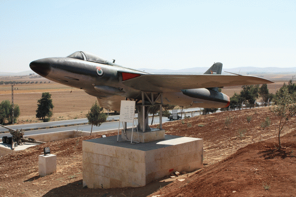 Military Exhibition Hall in Ramtha